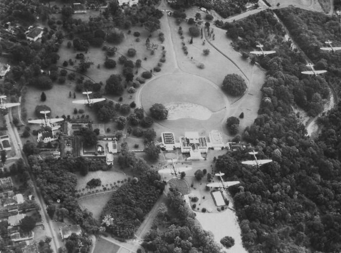 Inflight photo with Glenn Martin bombers of the Royal Netherland Indian Army (KNIL) over the Governeur-Generals Palace in Buitenzorg.